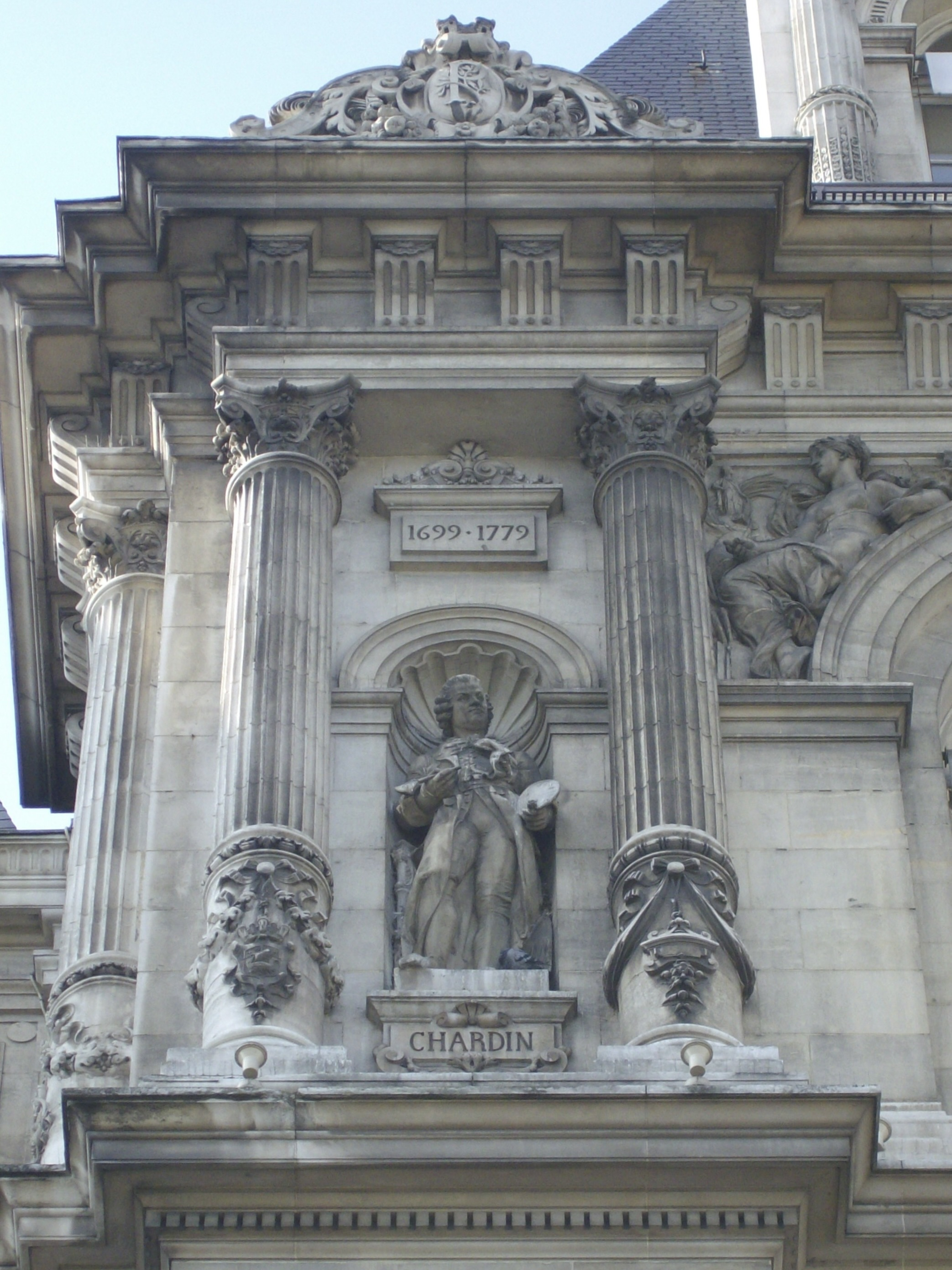 Statues of the City Hall in Paris, France